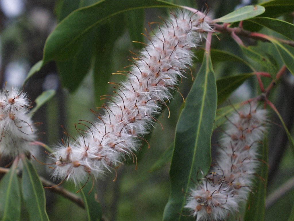 Fruiting spikes of Faurea saligna, Magaliesberg, South Africa